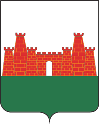 Mozhaysk (Moscow oblast), coat of arms